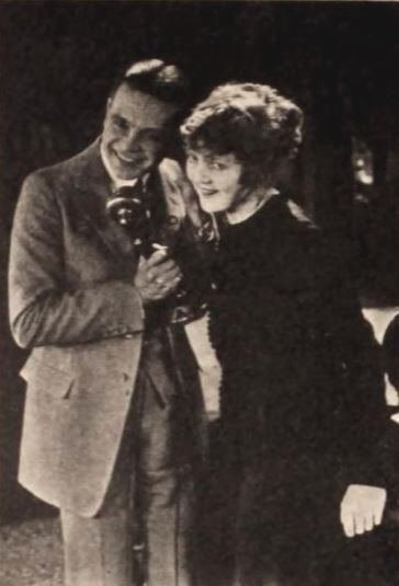 Still from the American comedy film The Rookie's Return (1920) with Douglas MacLean holding a telephone and Doris May, on page 78 of the January 8, 1921 Exhibitors Herald.